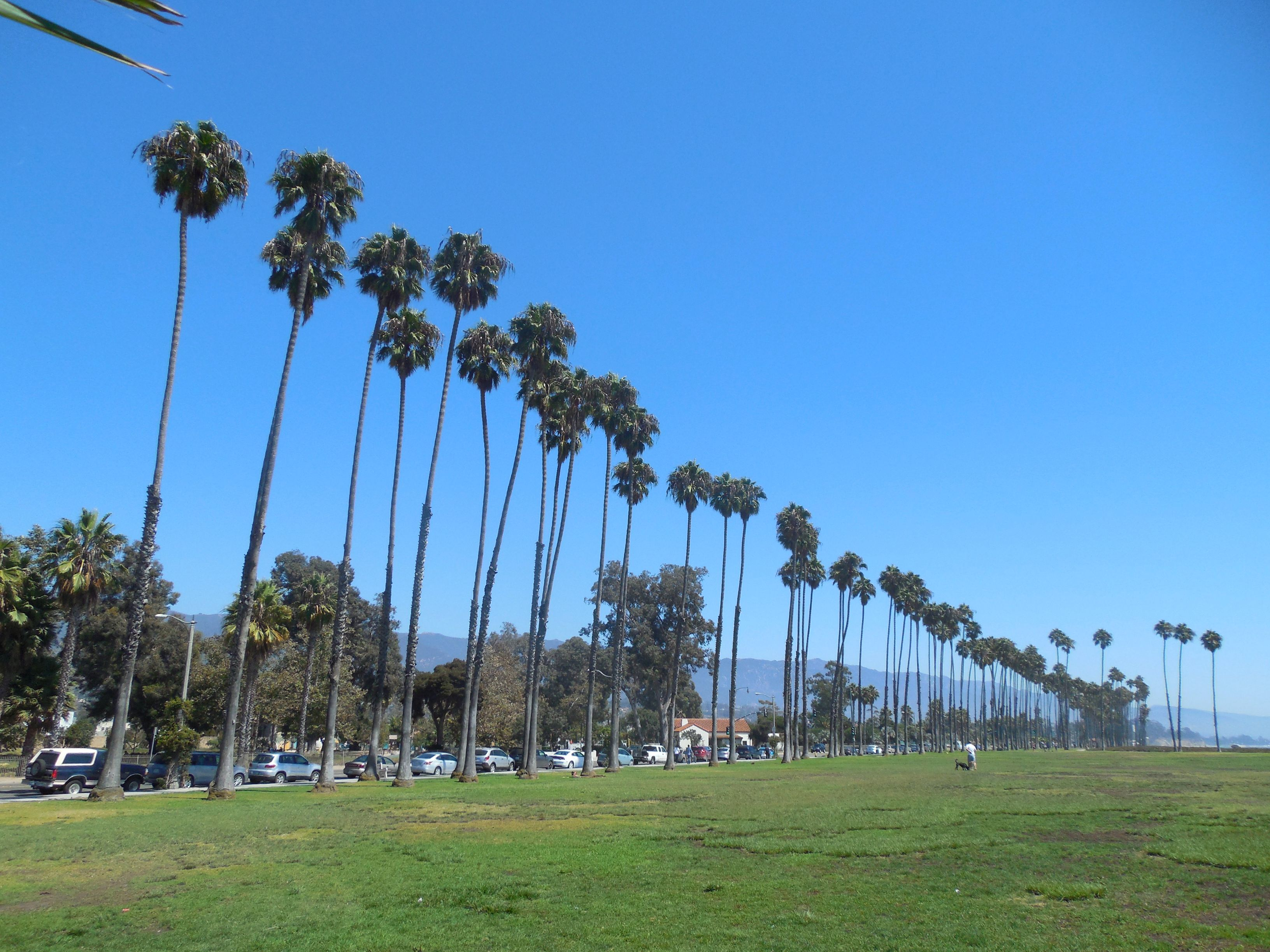 Palms along East Beach, parallel to East Cabrillo Blvd. in Santa Barbara, California